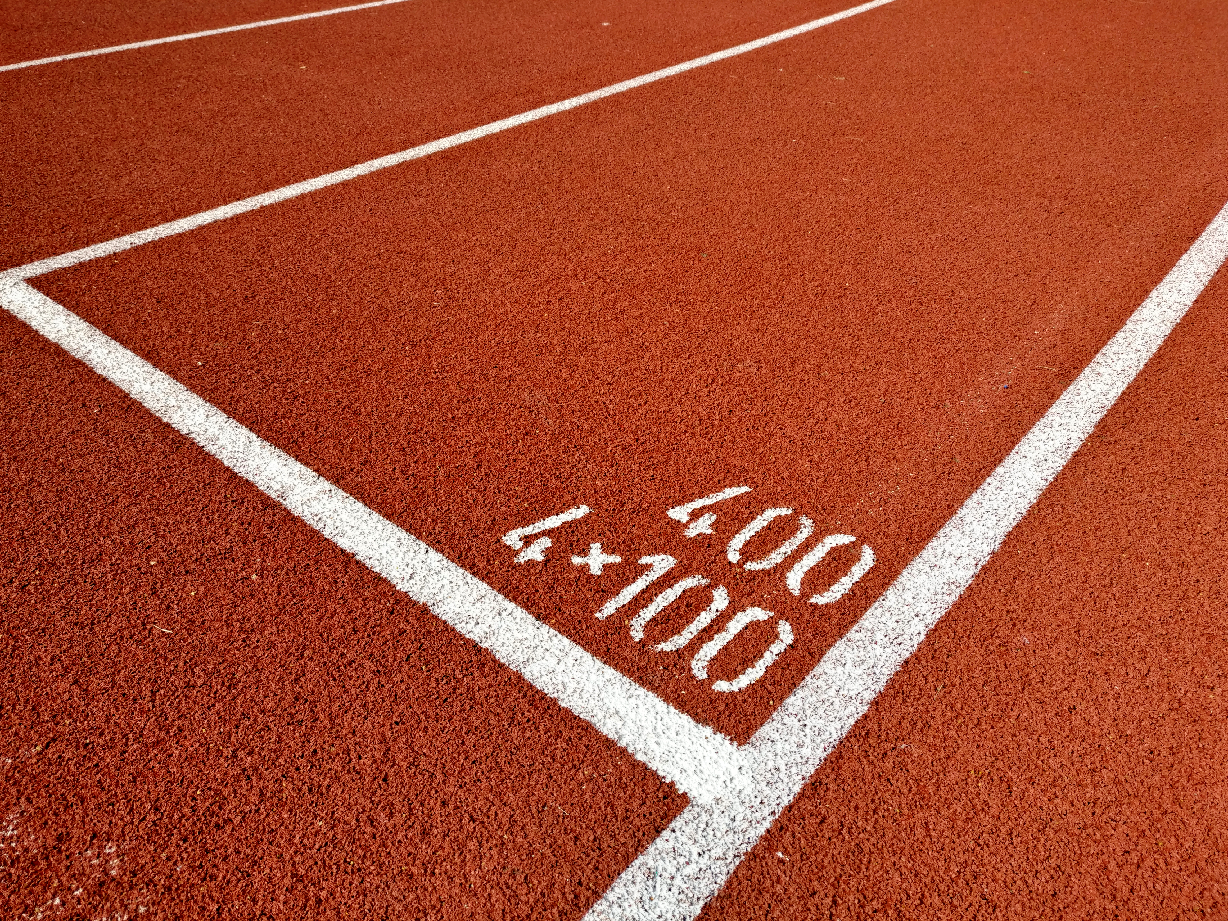 4 × 100 metres relay start line